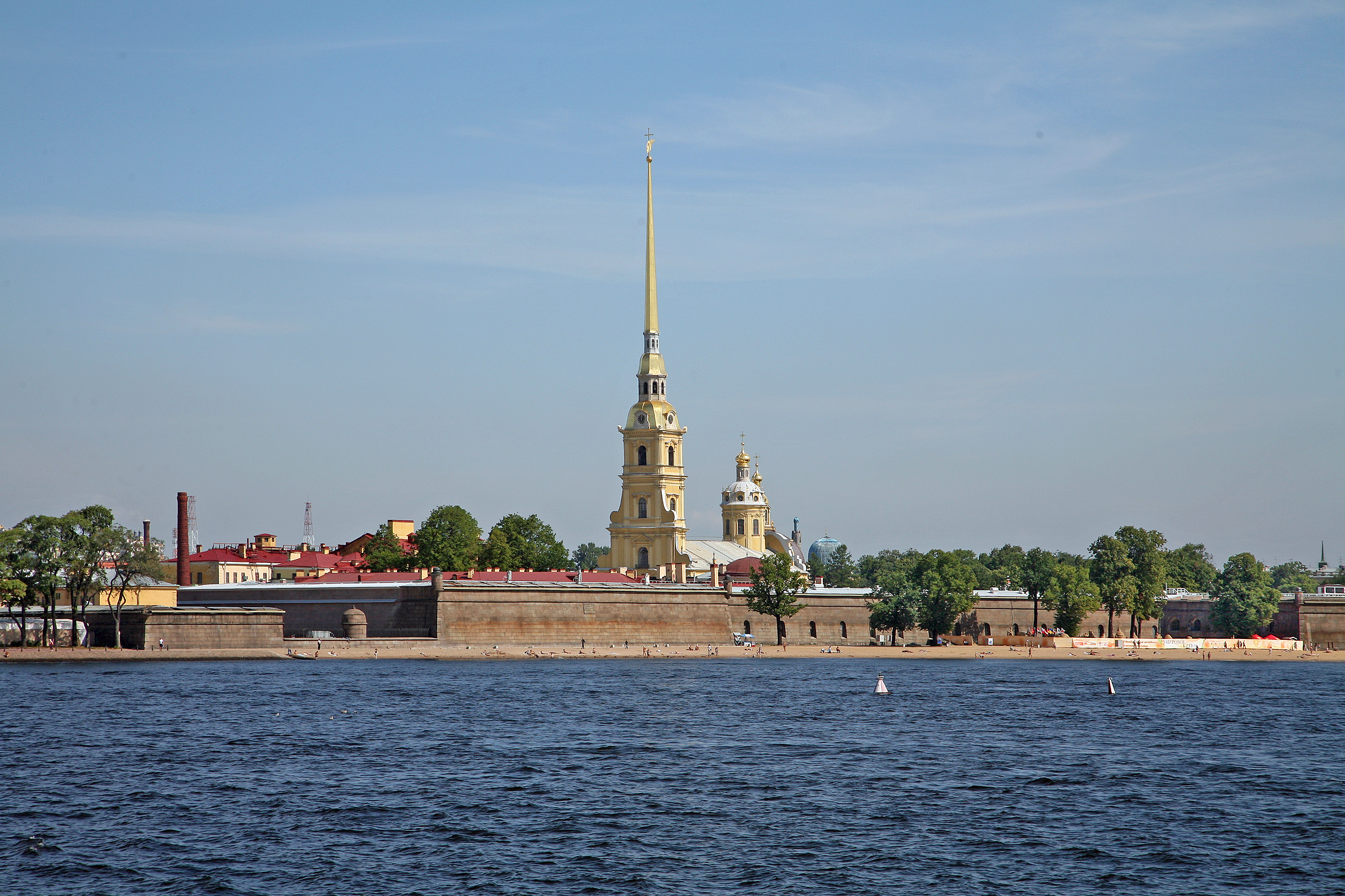 Saint Petersburg: Island in the River Neva with the fortress "Peter and Paul" and the cathedral "Peter and Paul.